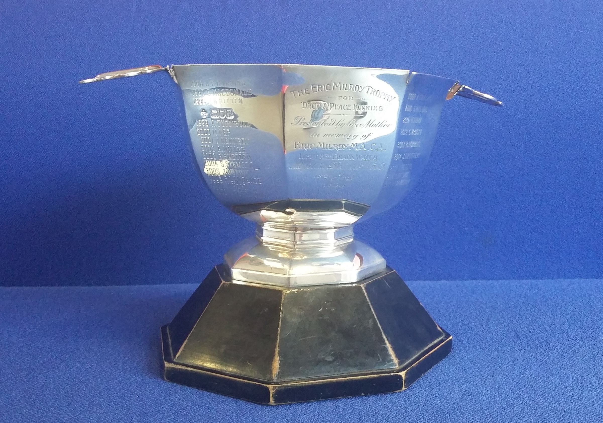 The Eric Milroy Trophy, presented by Milroy’s mother to George Watson’s College in 1920, continues to be awarded for kicking every year in school. Winners have included the Scotland internationals Douglas Kinloch Anderson, Gavin Hastings, Scott Hastings.